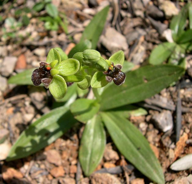 A work released per the GNU Free Documentation License by his creator: JUAN FULLANA MENUT ( Mallorca Island ) Spain.